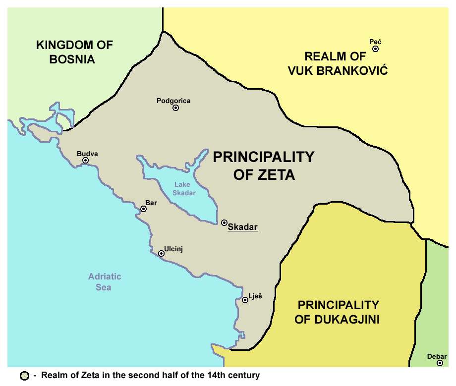 Principality of Zeta after collapse of the Serbian Empire in the 14th century. Кнежевина Зета после пада Српског царства у 14. веку.